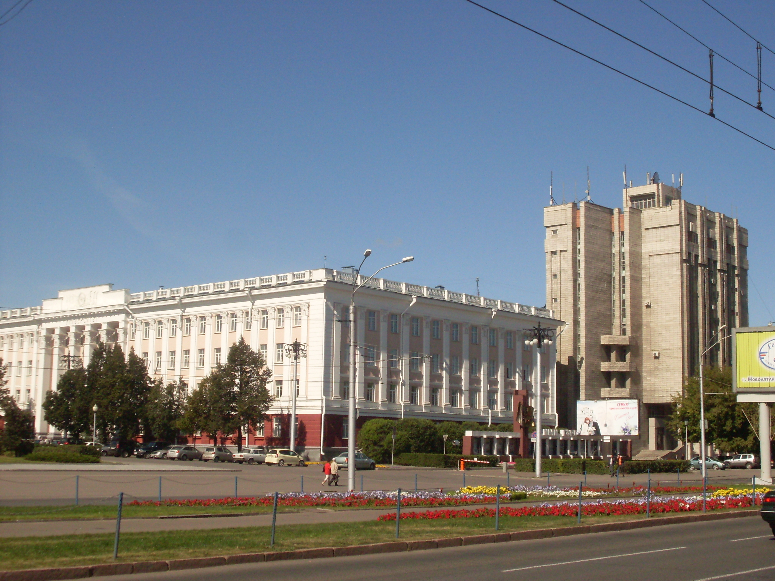 Buldings ‘L’ and ‘M’ of Altai State University buildings on Lenin avenue in Barnaul.